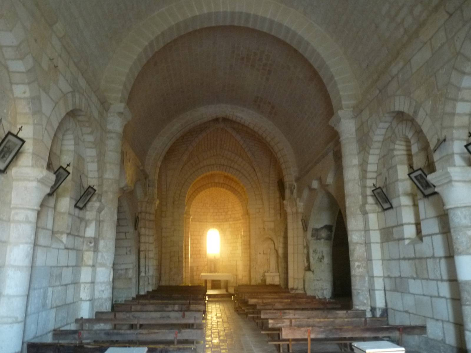 inside of church of Dirac, Charente, SW France